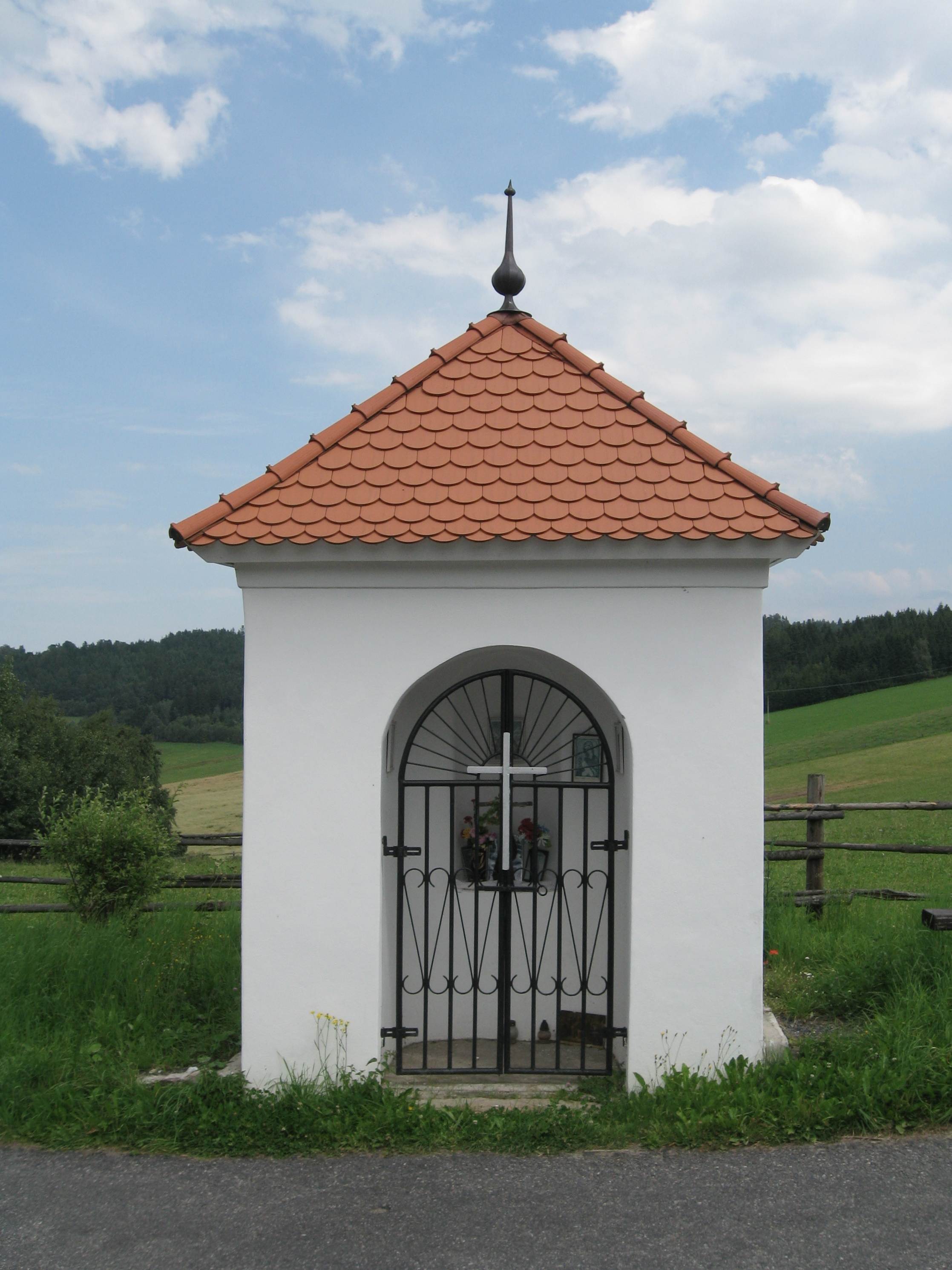 Chapel in Dlouhá Ves - part Bohdašice, Klatovy district, Czech Republic.